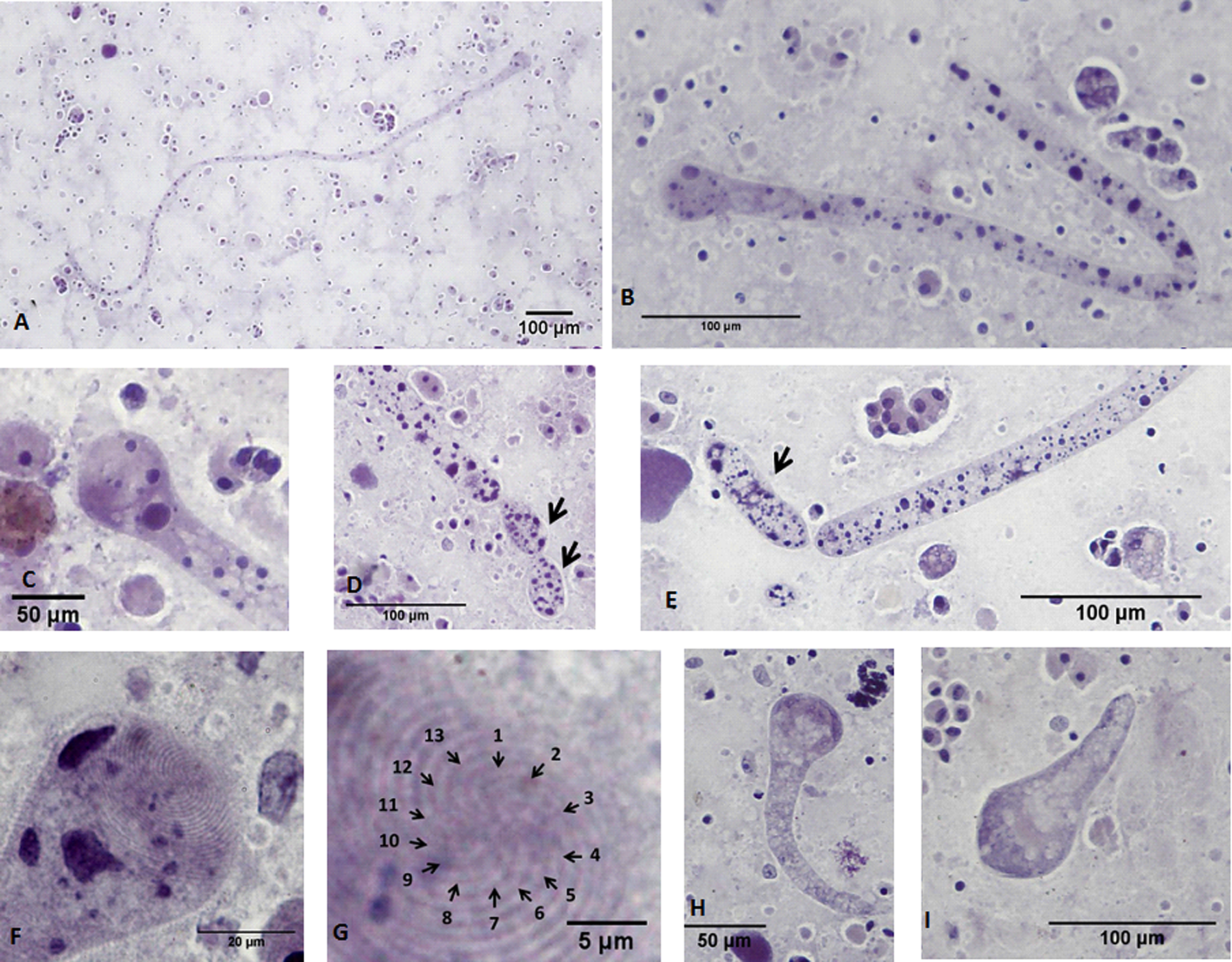 Figure 2 of paper Chromidina chattoni Souidenne, Florent and Grellier, 2016: morphology. (A, B) General views of tropho-tomonts. (C) Bulb-like head of tropho-tomont. (D, E) Palintomy with first generation of protomites (E) and second generation of protomites (D), arrows: protomites. (F) Bulb-like head of tropho-tomont. Note the presence of large and darkly-stained spots of chromatin associated with the head. (G) Ciliature consisting of 13 kineties (zoom of Fig. 2F). (H–I) Small forms of tropho-tomonts. Images were obtained from smears stained with haematoxylin. (A–I) Hapantotype and parahapantotypes.